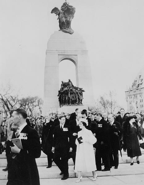 H.M. King George VI and Queen Elizabeth unveiling the National War Memorial, Ottawa, Canada